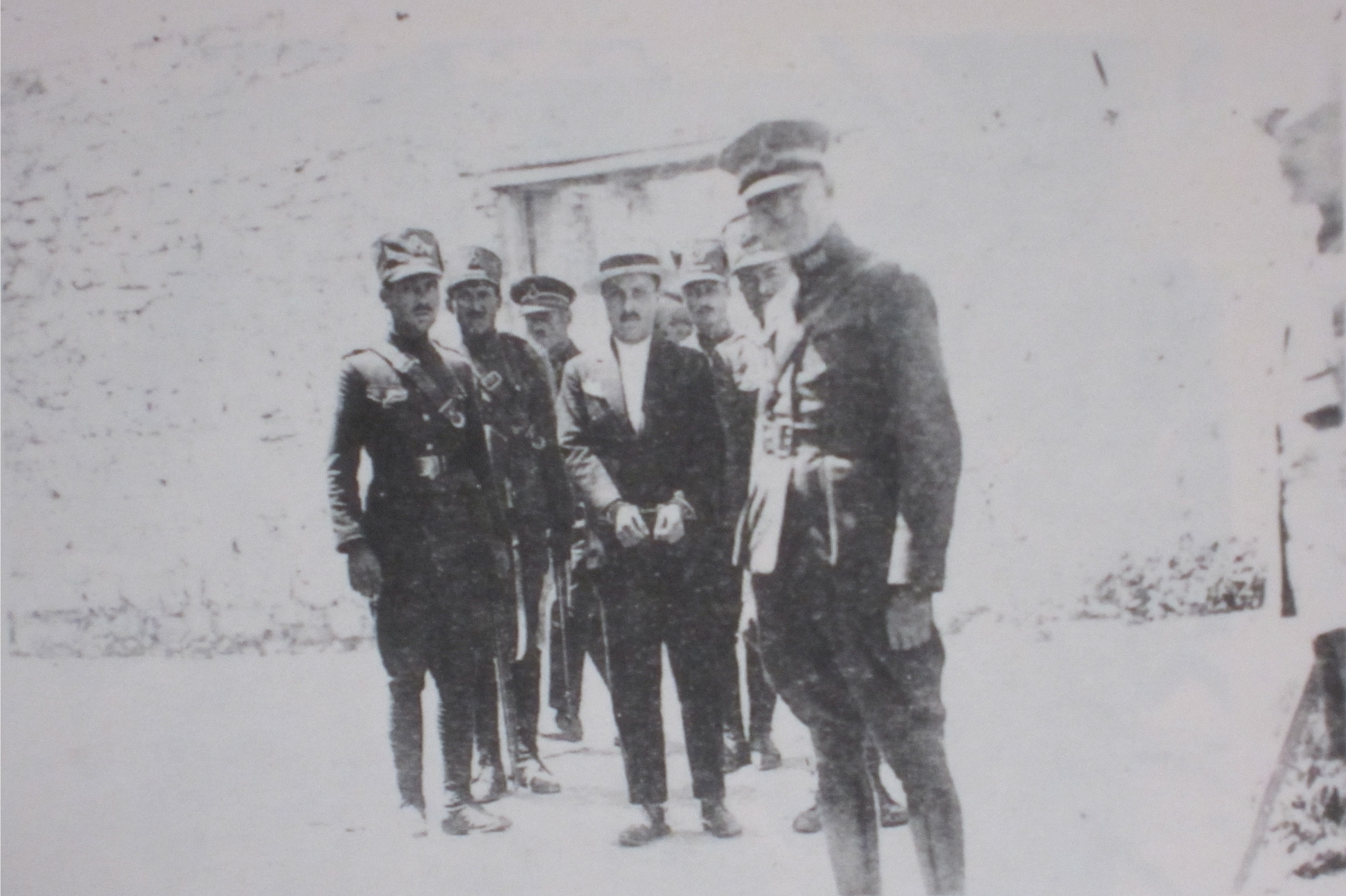 Laz Ismail walking into court